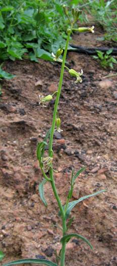 Caulanthus heterophyllus — in the Simi Hills. Taken at the Cheeseboro and Palo Comado Canyons Open Space preserve: Sheep Corral Trail. Santa Monica Mountains National Recreation Area, Ventura County, Southern California.